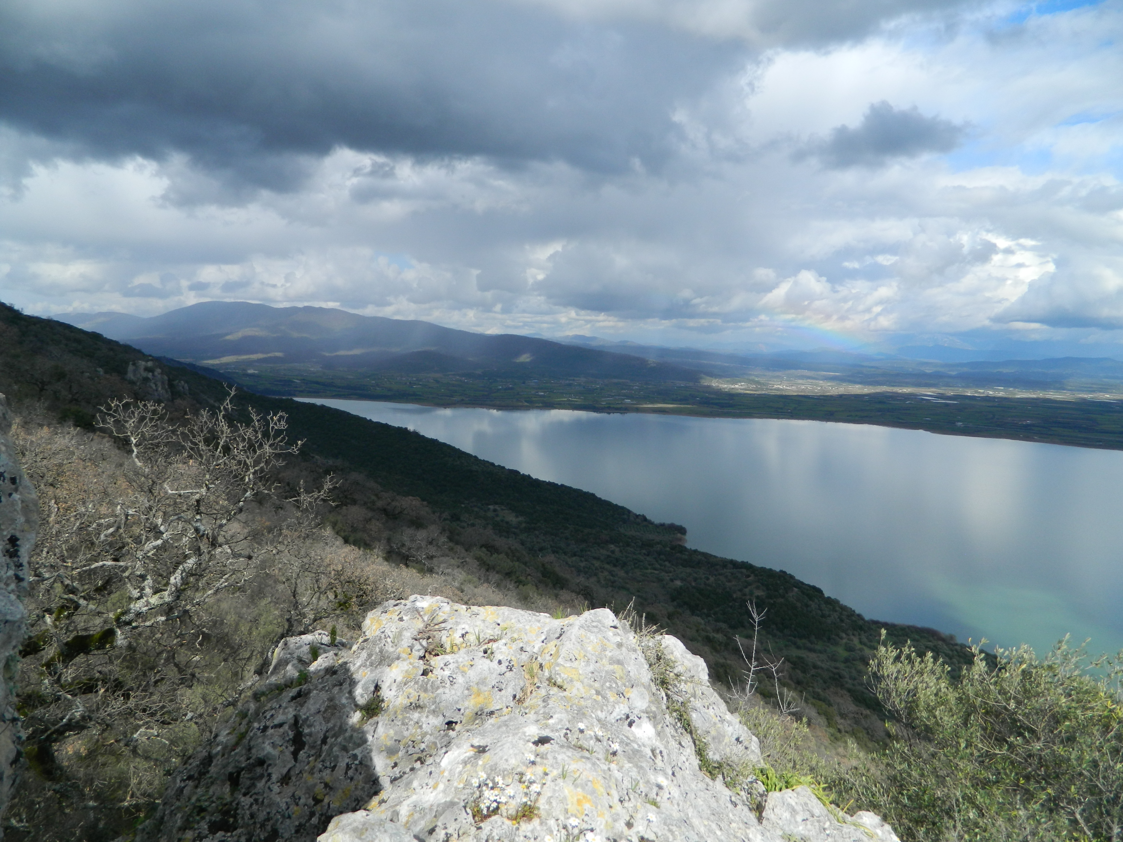 This is a photography of Natura 2000 protected area with ID GR2310008